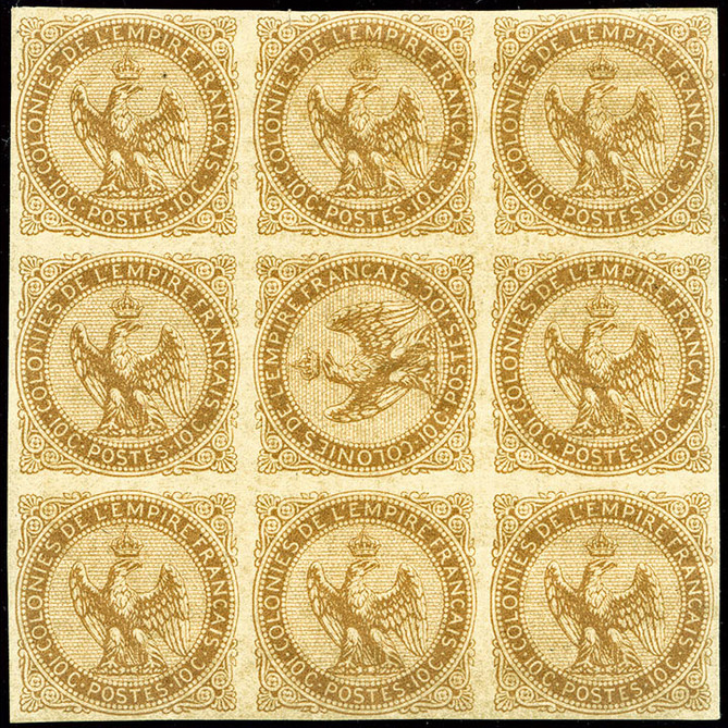 An example of 'timbre couché': block of nine postage stamp of Colonies de l'Empire Francais, 10 centimes, aigle imperial, 1859.